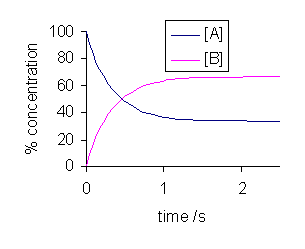 Species concentations for B=B